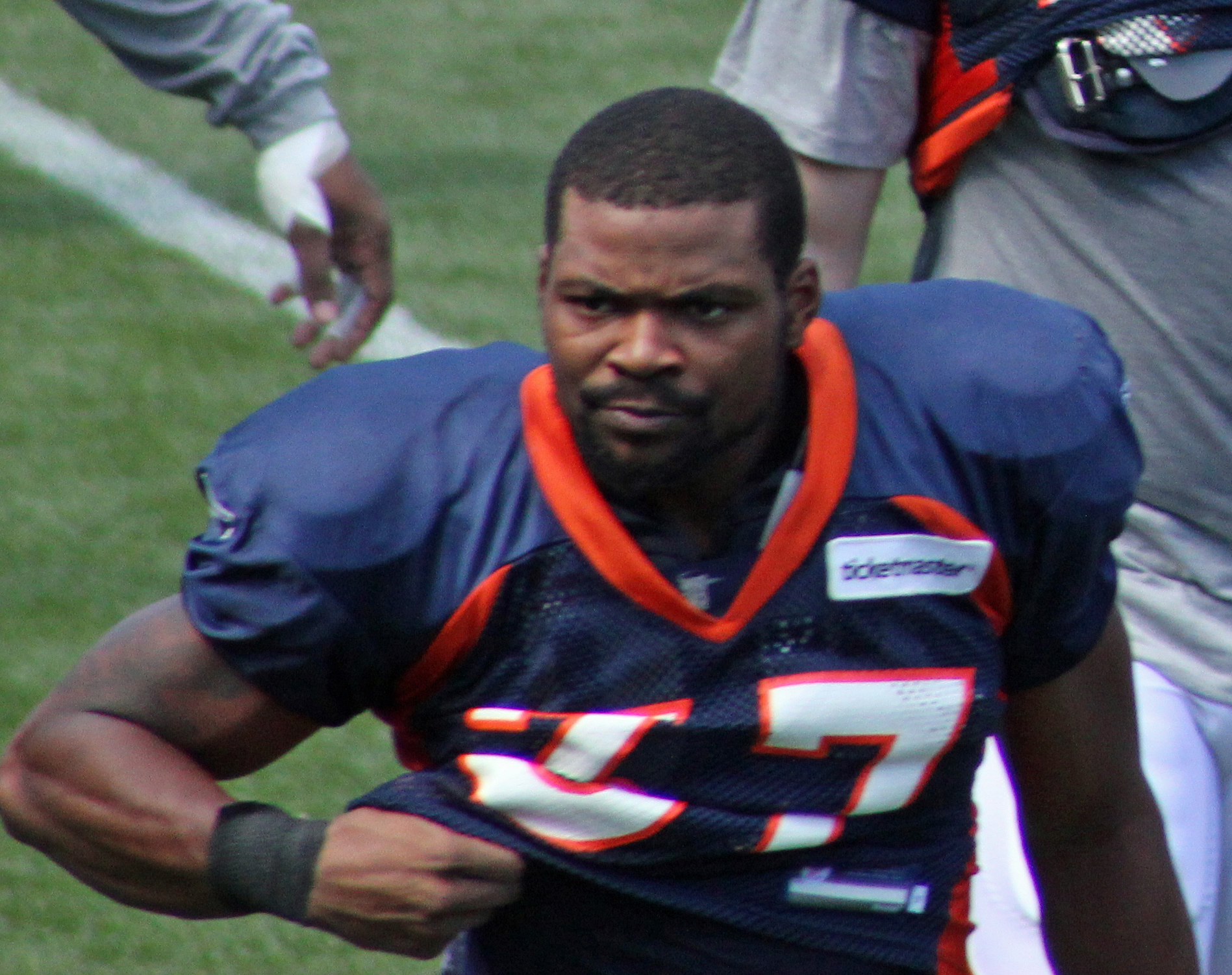 Jeremiah Johnson, a National Football League player.